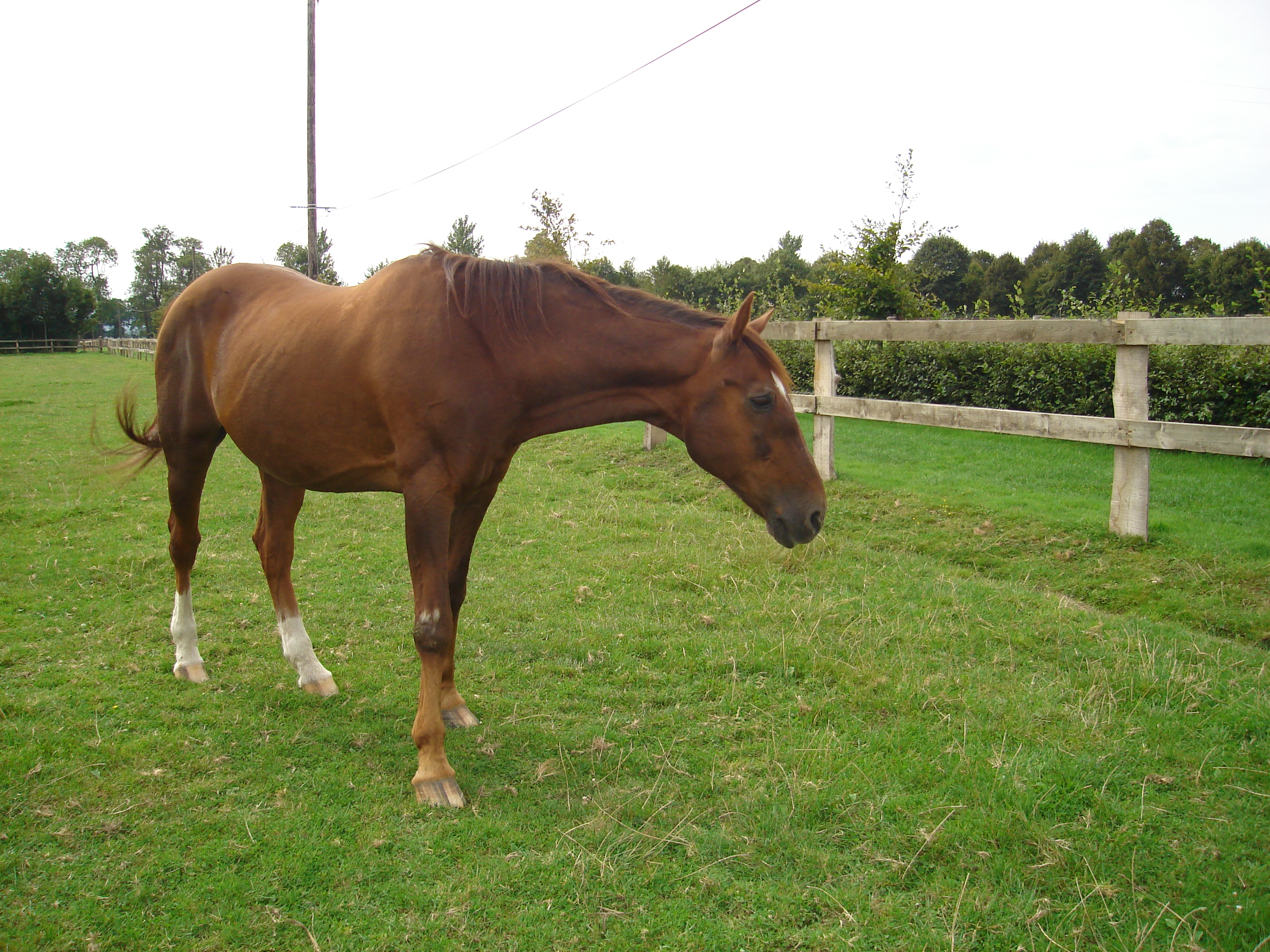 Photo of Ourasi (great racing horse) after his career at the age of 26 (born in 1980).